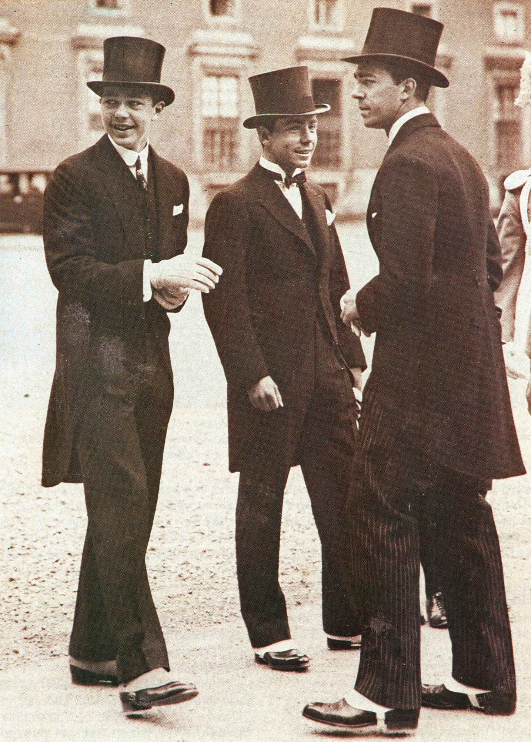 Three brothers: princes Bertil, Sigvard, and Gustav Adolf of Sweden at the Royal Palace.